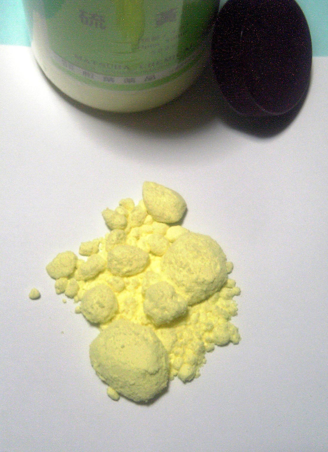 Reagent of sulfur. Possession of Vineyard Oct. 25, 2005